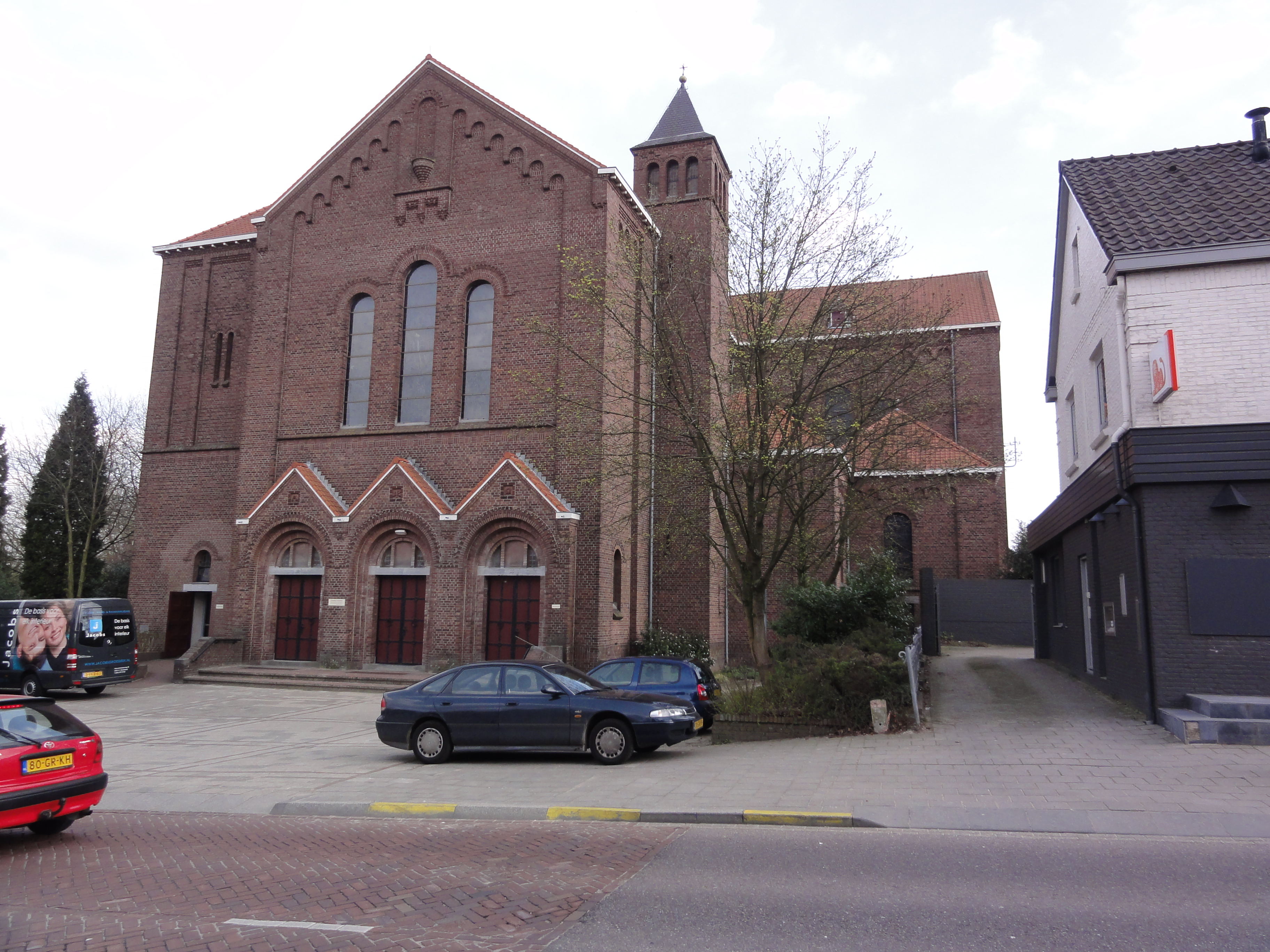 Groesbeek (Gld, NL) catholic church, façade